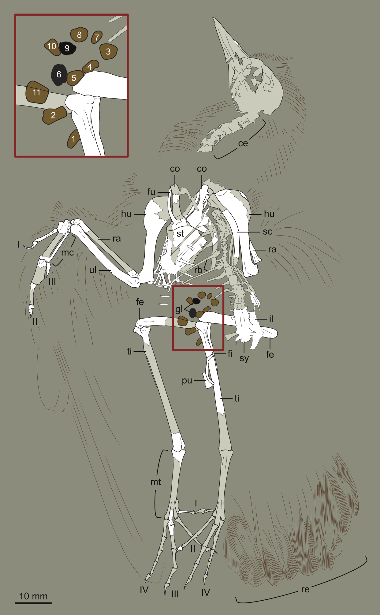 Interpretive drawing of DNHM D2946 (Hongshanornis longicresta). Abbreviations: ce, cervical vertebrae; co, coracoid; fe, femur; fi, fibula; fu, furcula; gl, gastroliths; hu, humerus; il, ilium; mc, metacarpals; mt, metatarsals; pu, pubis; ra, radius; rb, ribs; re, rectrices; sc, scapula; st, sternum; sy, synsacrum; ti, tibia; ul, ulna; I–IV, digits (manual or pedal) I–IV.